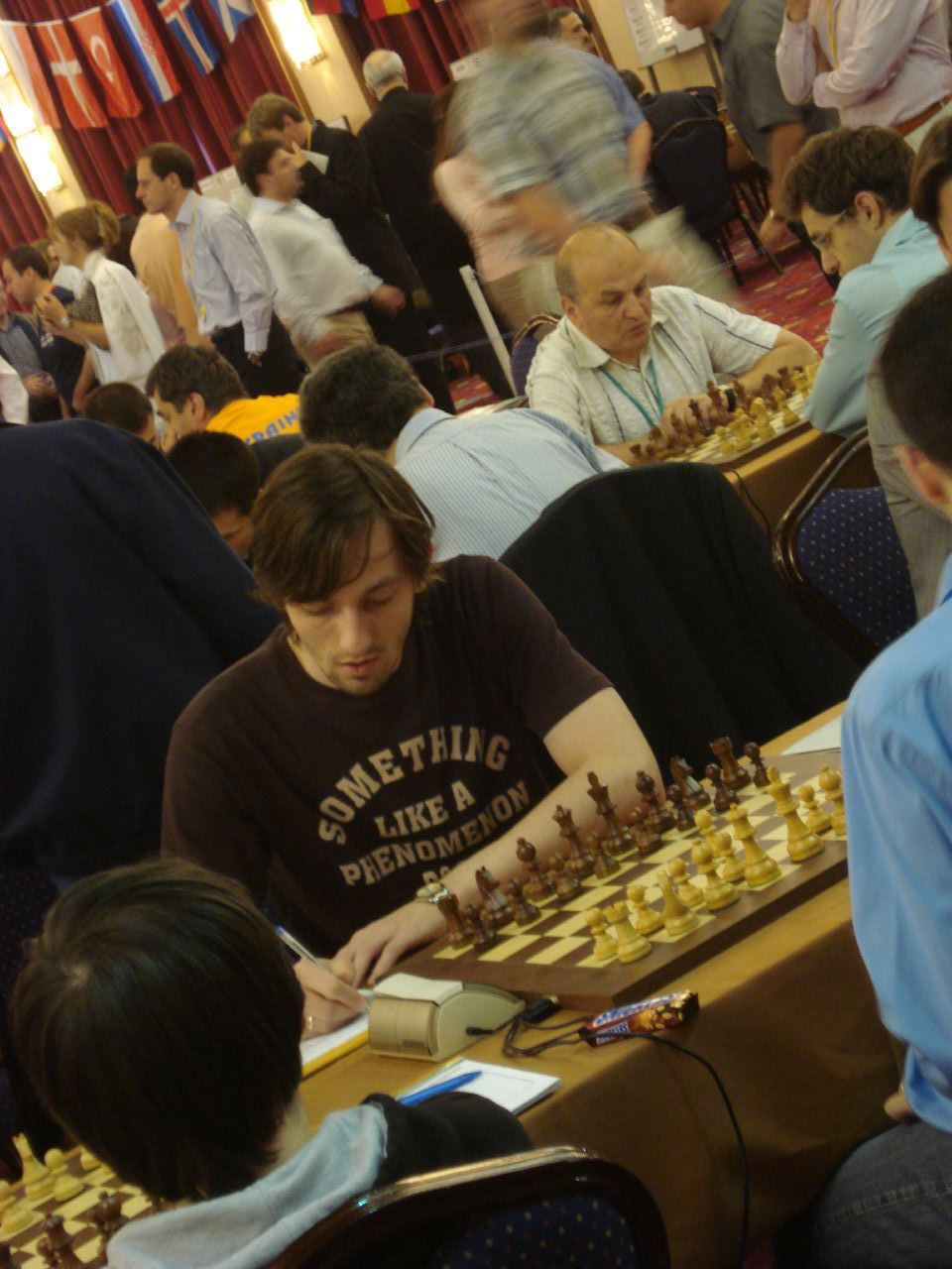 GM Alexander Grischuk Russia, Iraklion 2007